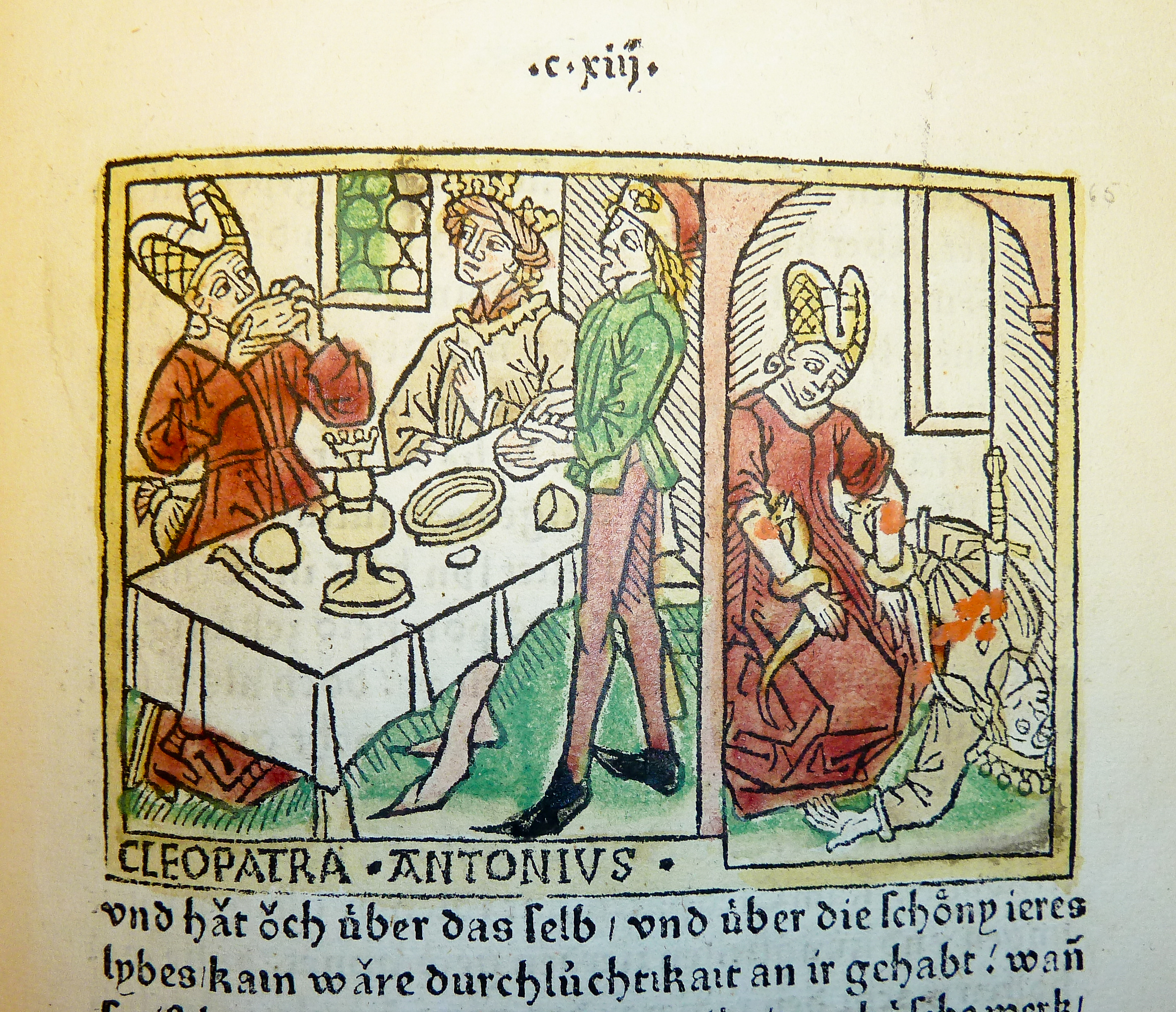 Woodcut illustration (leaf [n]3r, f. cxiij) of Cleopatra and Mark Antony, hand-colored in red, green, yellow and black, from an incunable German translation by Heinrich Steinhöwel of Giovanni Boccaccio's De mulieribus claris, printed by Johannes Zainer at Ulm ca. 1474 (cf. ISTC ib00720000). One of 76 woodcut illustrations (1 on leaf [e]8v dated 1473), each 80 x 110 mm., depicting scenes from the life of the women chronicled (for a full list of subjects, cf. W.L. Schreiber, Handbuch der Holz- und Metallschnitte des XV. Jahrhunderts (Nendeln: Kraus Reprints, 1969), no. 3506). "Pour la première moitie le nom se trouve inscrit à côte de la tête de chaque femme, pour le reste il es ajouté entre les deux réglettes. Il n'y en a que trois, qui n'ont qu'un seul trait carré."--Schreiber. Established form: Zainer, Johannes, ‡d d. 1541?. Established form: Cleopatra, ǂc Queen of Egypt, ǂd d. 30 B.C. Established form: Antonius, Marcus, ǂd 83?-30 B.C. Penn Libraries call number: Inc B-720 All images from this book Penn Libraries catalog record